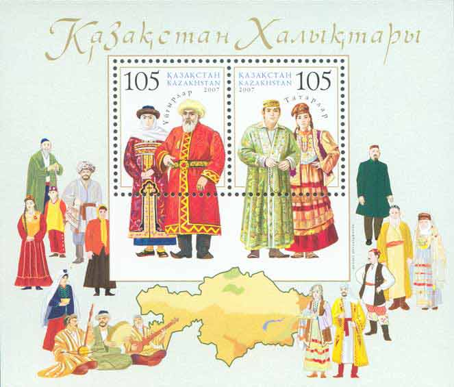 The Uigurs and the Tatars in traditional costumes. Stamp of Kazakhstan